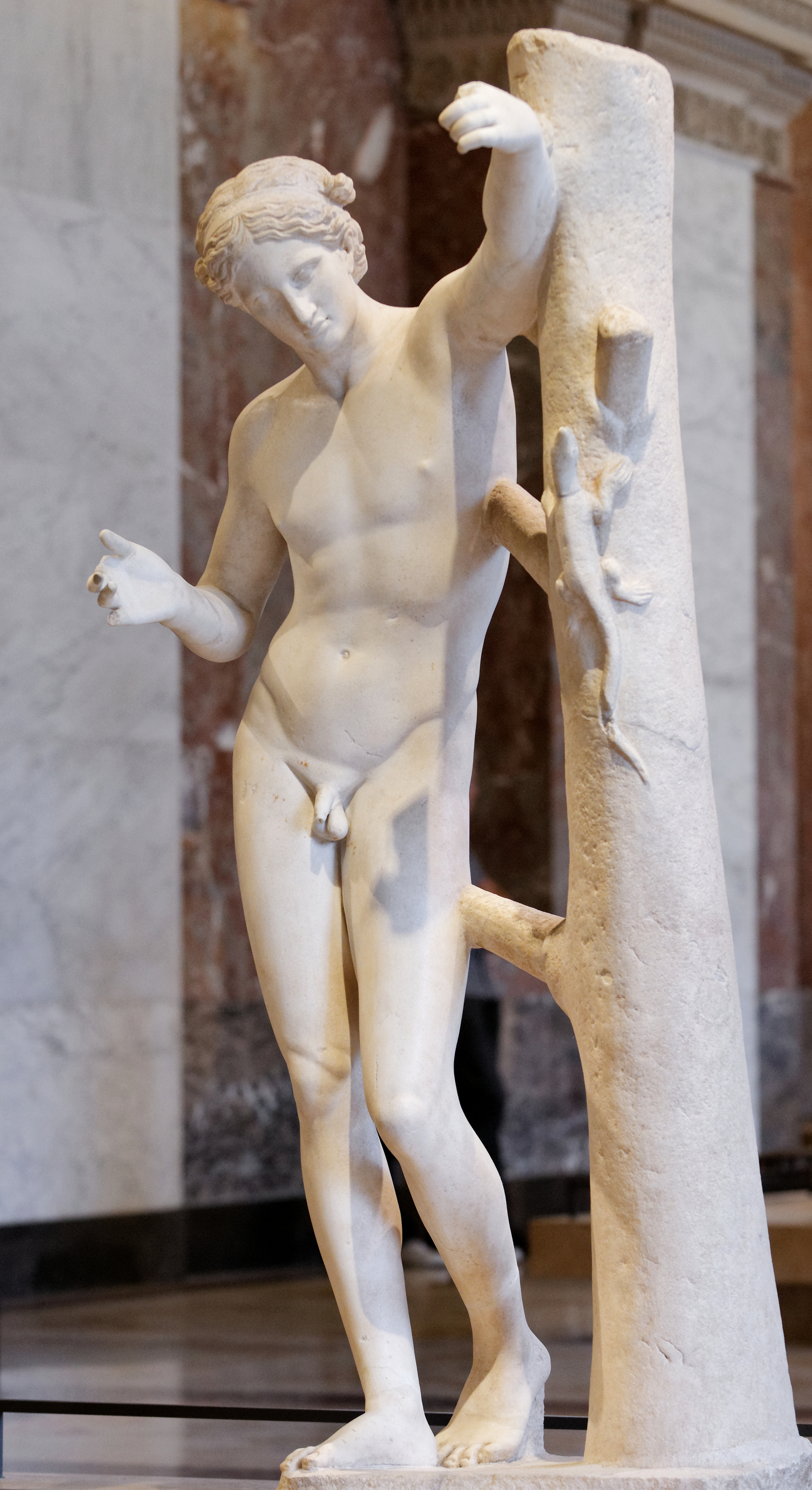 Statue of the type of Apollo Sauroctonus (lizard-killer), detail. Roman copy from the AD 1st century (?) after a Greek original of ca. 350 BC with 17th and 18th century restorations, détail. Found in Rome, 17th century (?).